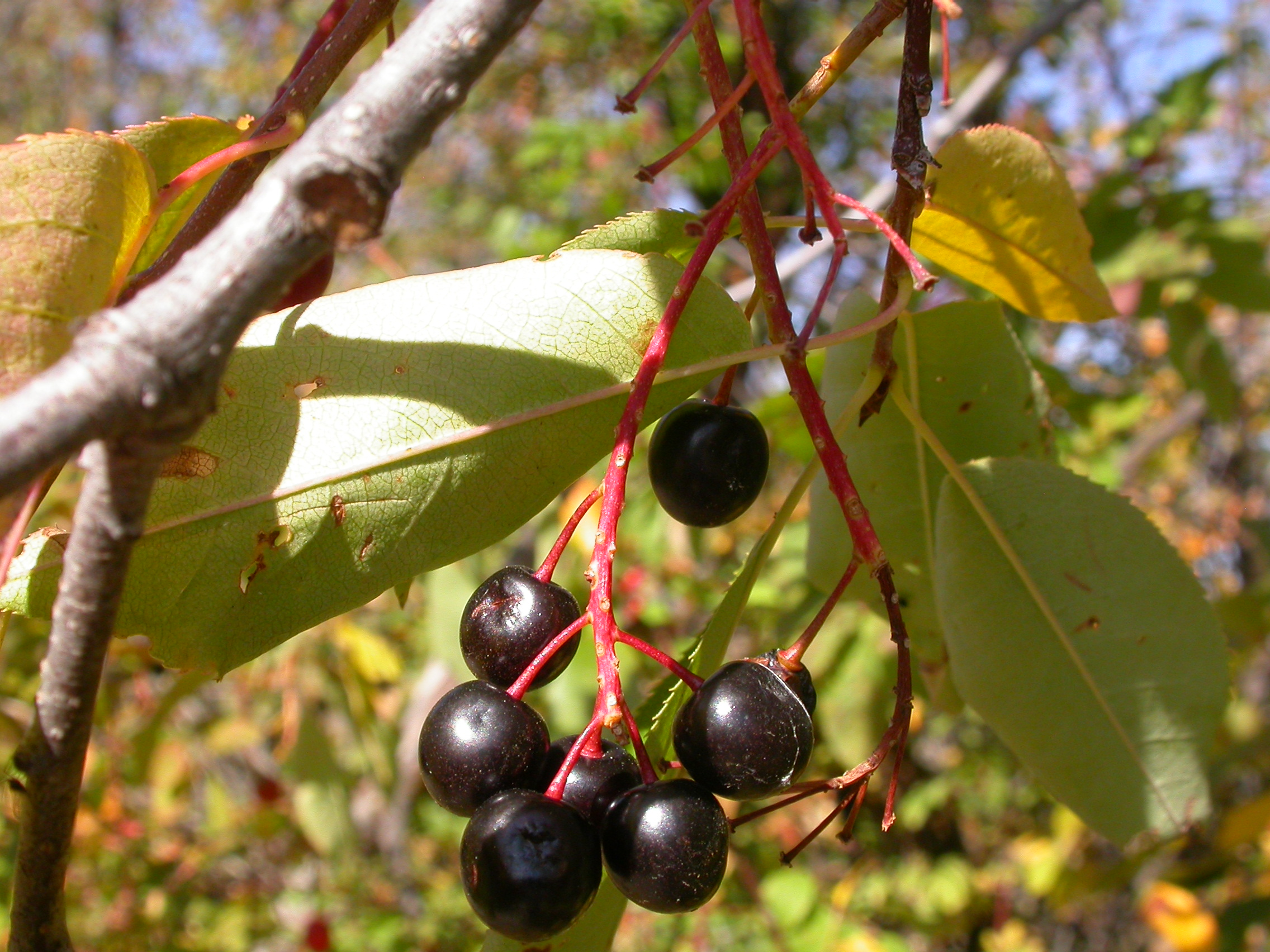 The "naked" pedicels (stalks with fruits fallen) is indicative of a drupe fruit-type.